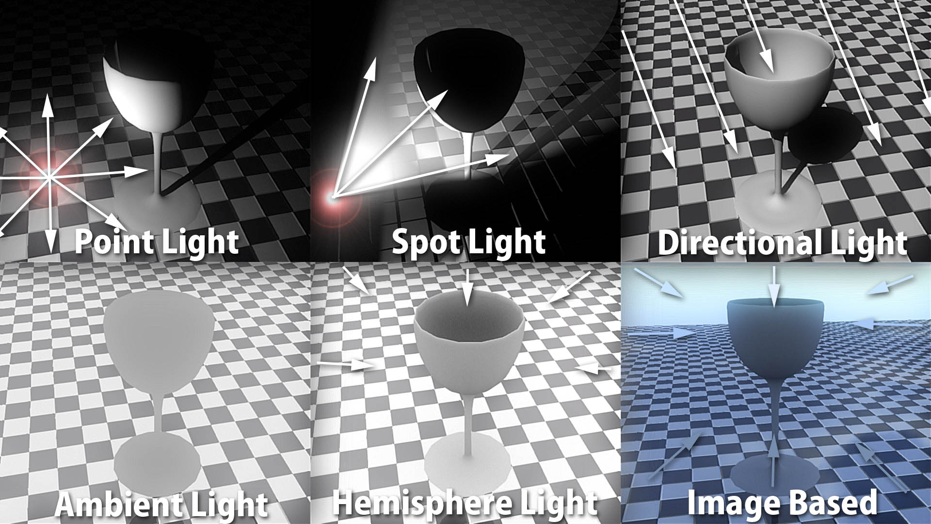 Point light, spot light, parallel (directional) light, ambient light, sky (hemisphere) light, and image-based light. Made with Lightwave 9.